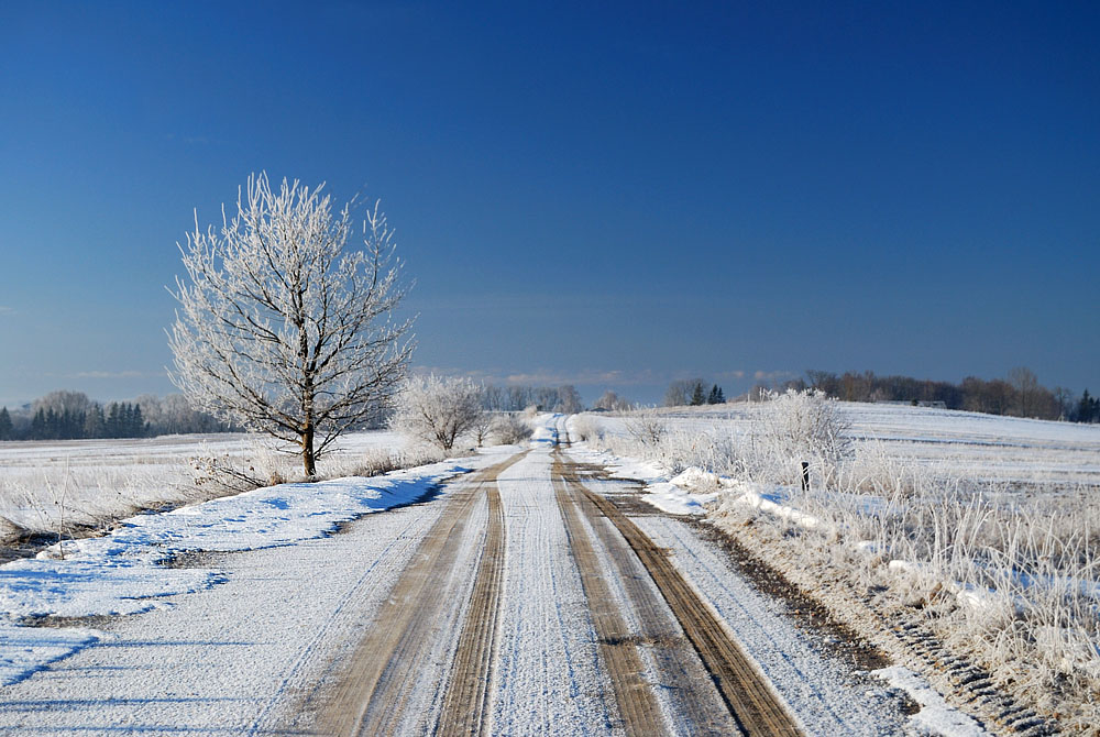 Frosted fields, Lithuania